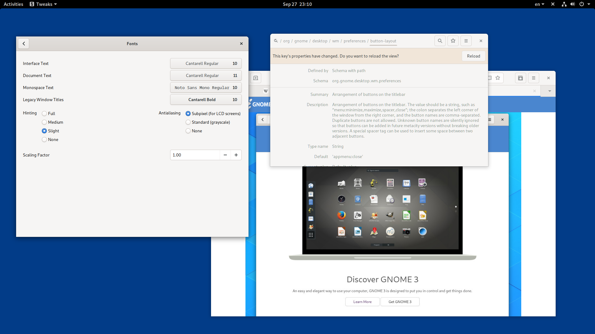 This picture shows GNOME 3.34 default font and window controls layout